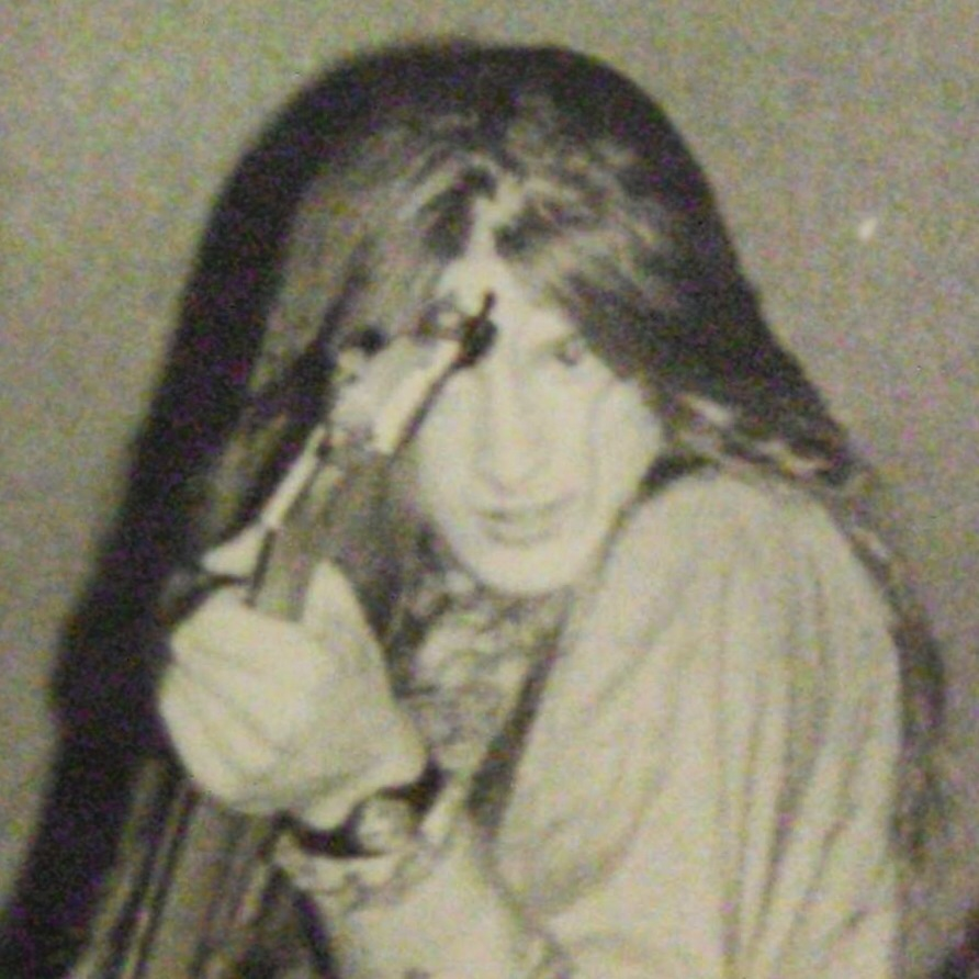 Steven goin' for it at some crappy club in 1987